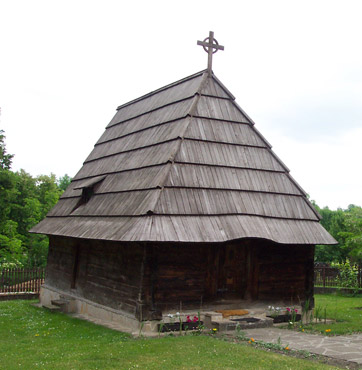 Orthodox Church in Gorobilje, Serbia